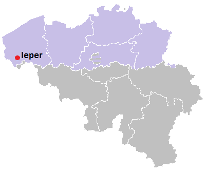 Location of Ieper (Yper/Ypres/Ypern) in Flanders (Belgium) marked by a red dot